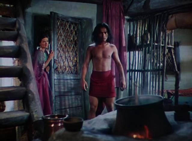 Rosemary DeCamp & Sabu in Jungle Book - cropped screenshot